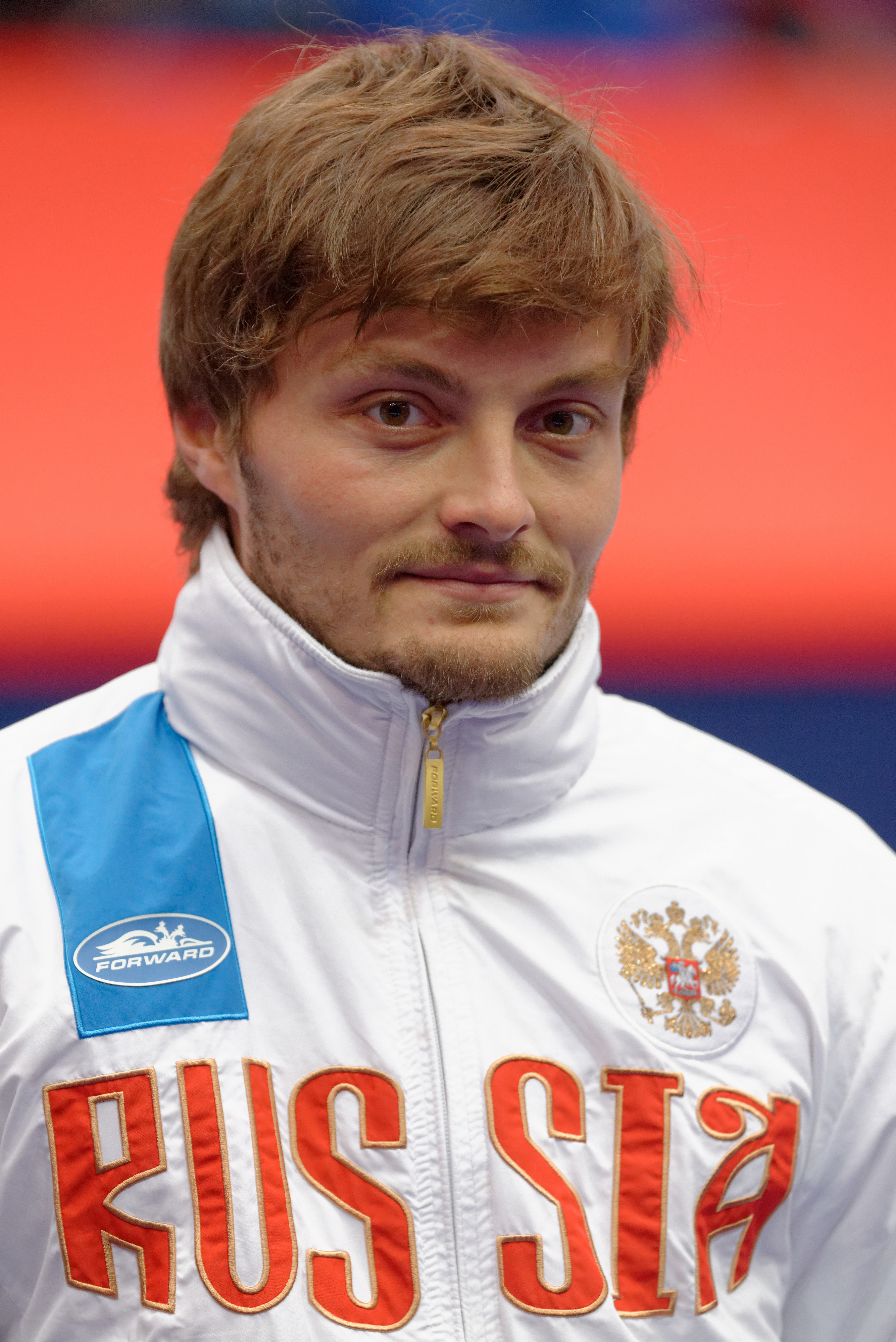 Russia's Dmitry Rigin at the individual event of the 2015 Challenge International de Paris, a men's foil World Cup competition.